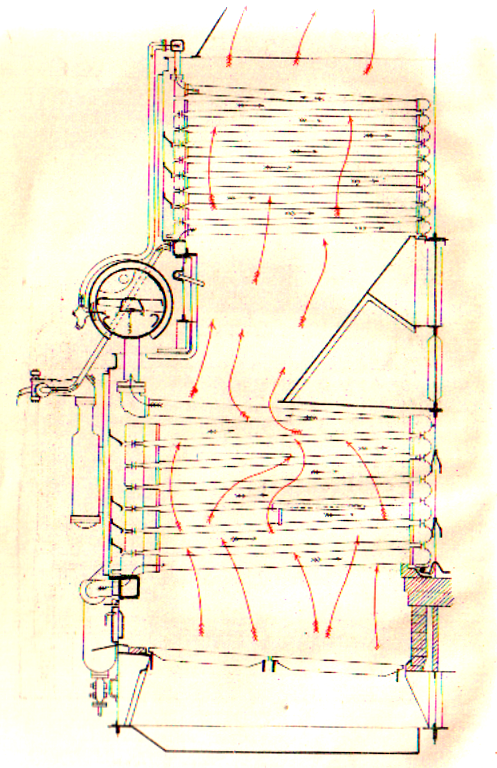 Scans from 'Stokers' Manual 1912', the Royal Navy's standard training handbook, "for engine-room ratings not entitled to the steam manuals and seamen under training in mechanical and stokehold work". See other images from this source in Scans from 'Stokers' Manual 1912'